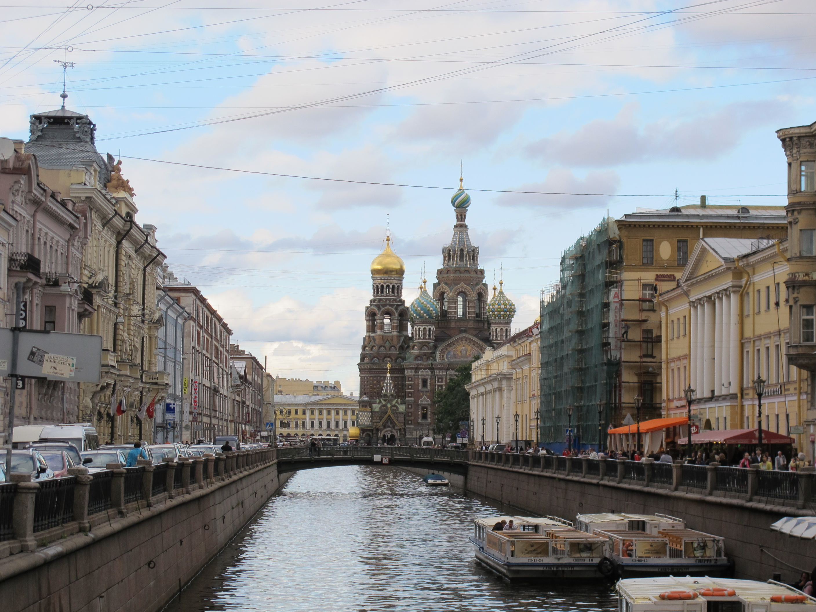 Church of the Saviour on the Blood